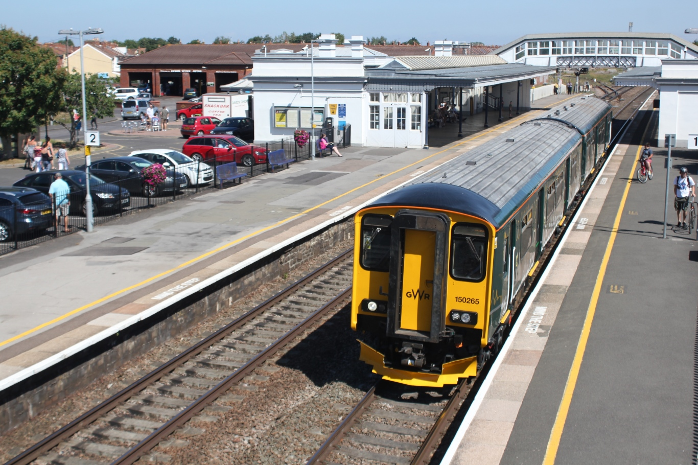 150265 leaves a sunny Bridgwater station while working a Great Western Railway service from Bristol Parkway to Taunton.